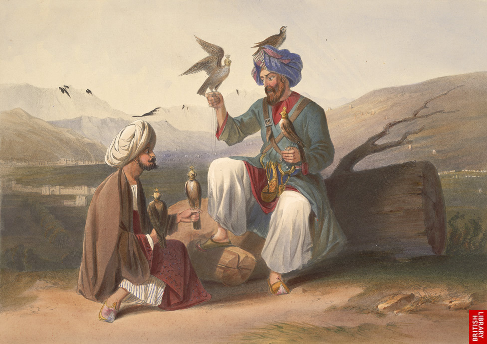 Hawkers of Ko-i-staun, with Valley of Caubul and Mountains of Hindoocoosh This lithograph is taken from plate 4 of 'Afghaunistan' by Lieutenant James Rattray. In September 1841 Rattray sketched two men from Kohistan, Khudadard and Guldin, who were part of the cavalry escort of his brother, Captain Rattray. In their capacity as falconers they also accompanied the brothers on sporting rides. Two kinds of birds of prey were used for hunting: the 'chirk' for antelope, bustard and other large game; the 'baz' for smaller quarry like partridge and quail. After the hunting season the birds were released. If recaptured, they were sternly schooled to accept their masters, kept in a darkened room, starved and then fed. Six weeks was the usual period taken to 'form' a bird. Rattray wrote: "That an old hawk should be rendered so docile and clever is wonderful, much more so when the same bird has been captured by the same fowler for several successive years." Rattray's brother was killed in this beautiful valley only a month later.